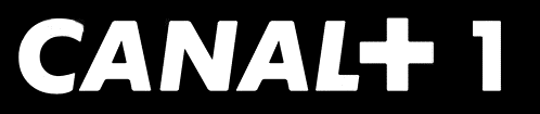 Canal+ 1 (Spain) logo